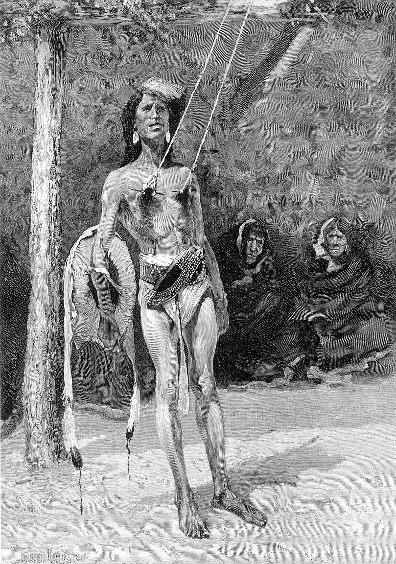 Blackfeet Sundancer by Frederic Remington 1890